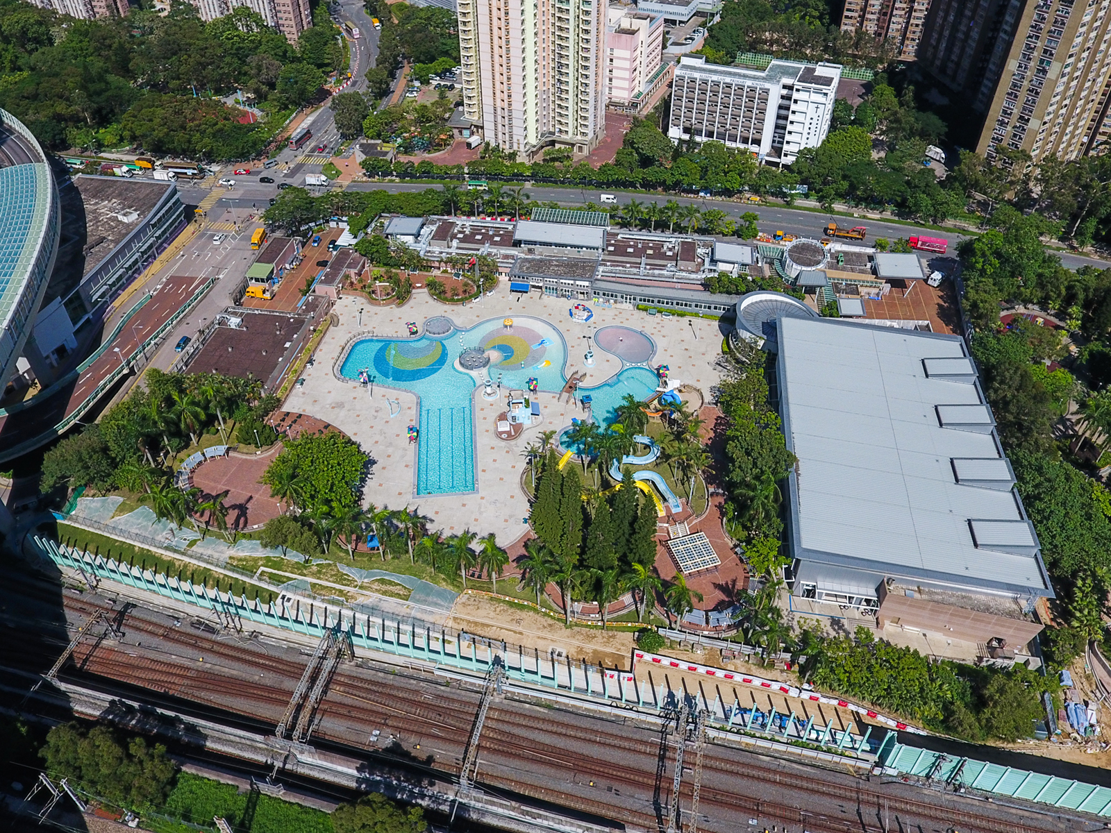 Hin Tin Swimming Pool